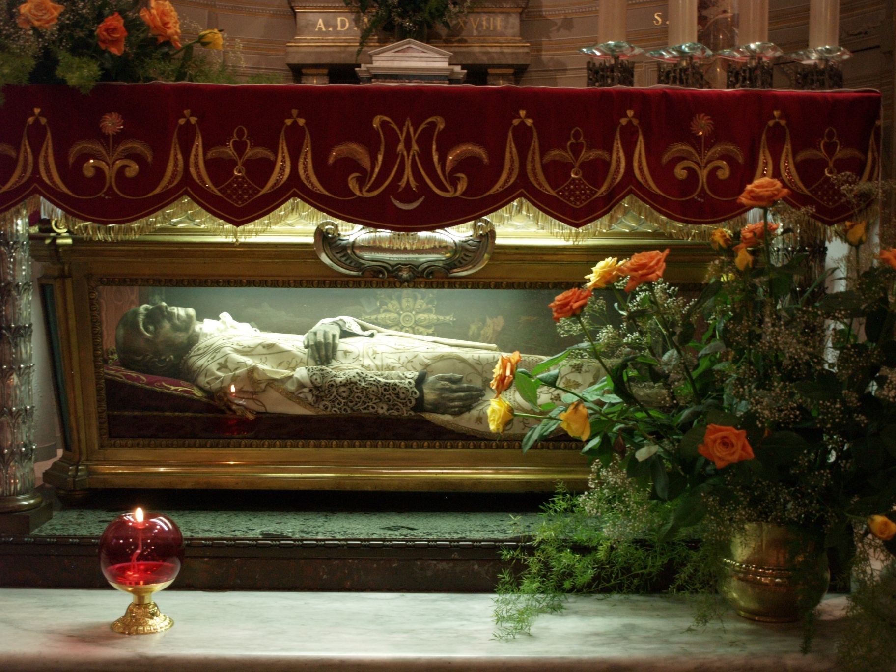 Sarcophagus of saint Vincent Pallotti (Vincenzo Pallotti) in the altar in the church Salvatore in Onda, Rome